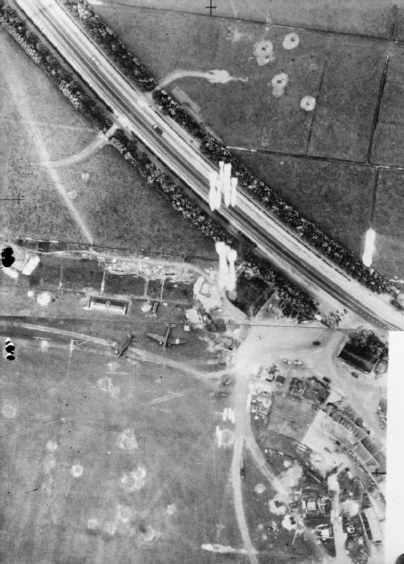 Royal Air Force in France, 1939-1940. Composite of two aerial photographs taken during an attack on Ypenburg airfield, Holland, by Bristol Blenheim Mark IVs of the Advanced Air Striking Force. 250-lb GP bombs can be seen falling over the main Delft-Den Haag road onto the airfield where two Focke-Wulf Fw 58 are parked near the hangars. The bomb craters on and around the site were made during Luftwaffe attacks immediately prior to the German invasion.